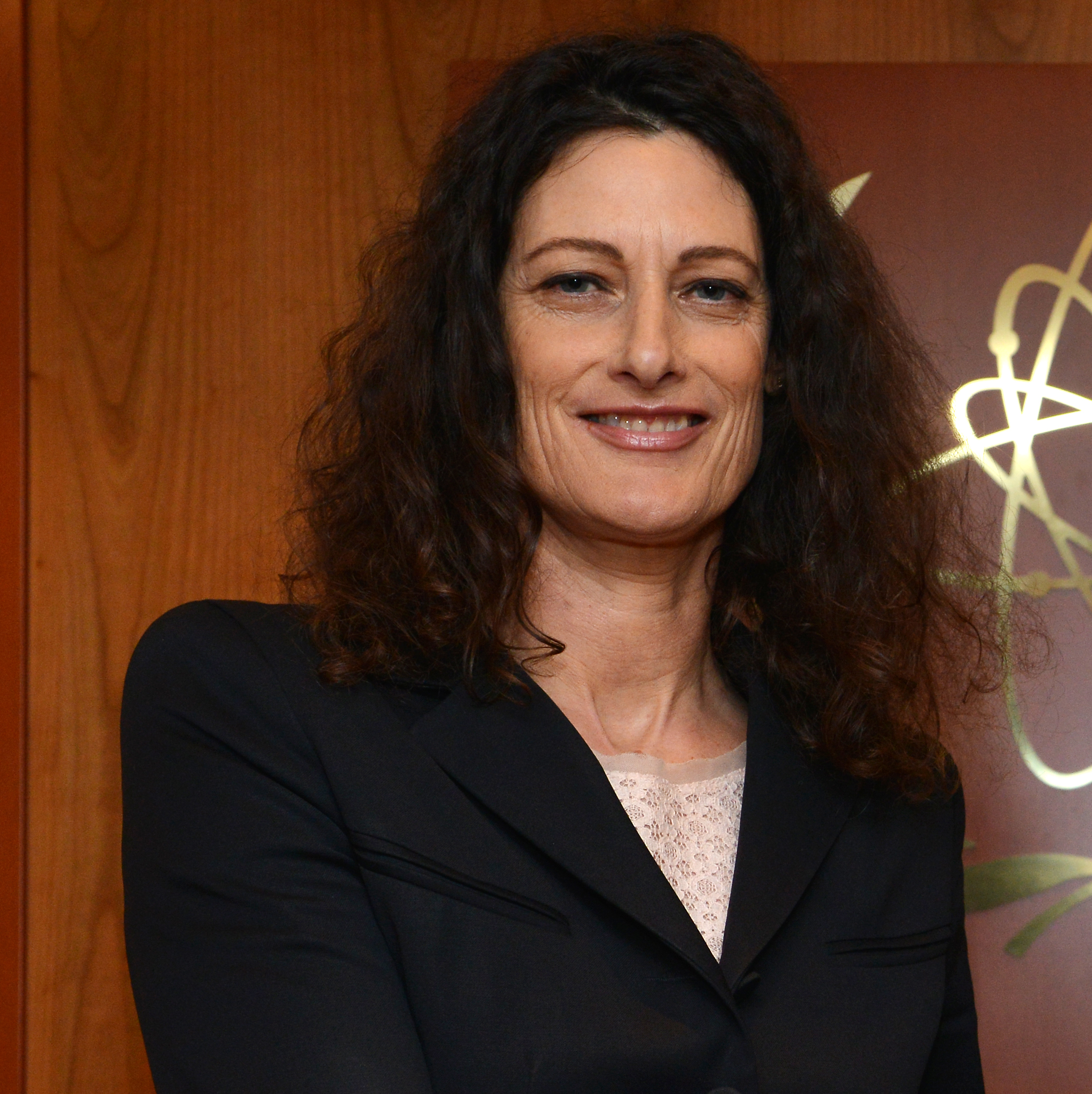 HE Ms Deborah Geels, Resident Representative of New Zealand to the IAEA presents the letter to amend the Small Quantities Protocol (SQP) to IAEA Director General Yukiya Amano at the IAEA headquarters in Vienna, Austria. 24 February 2014 Photo Credit: Dean Calma / IAEA